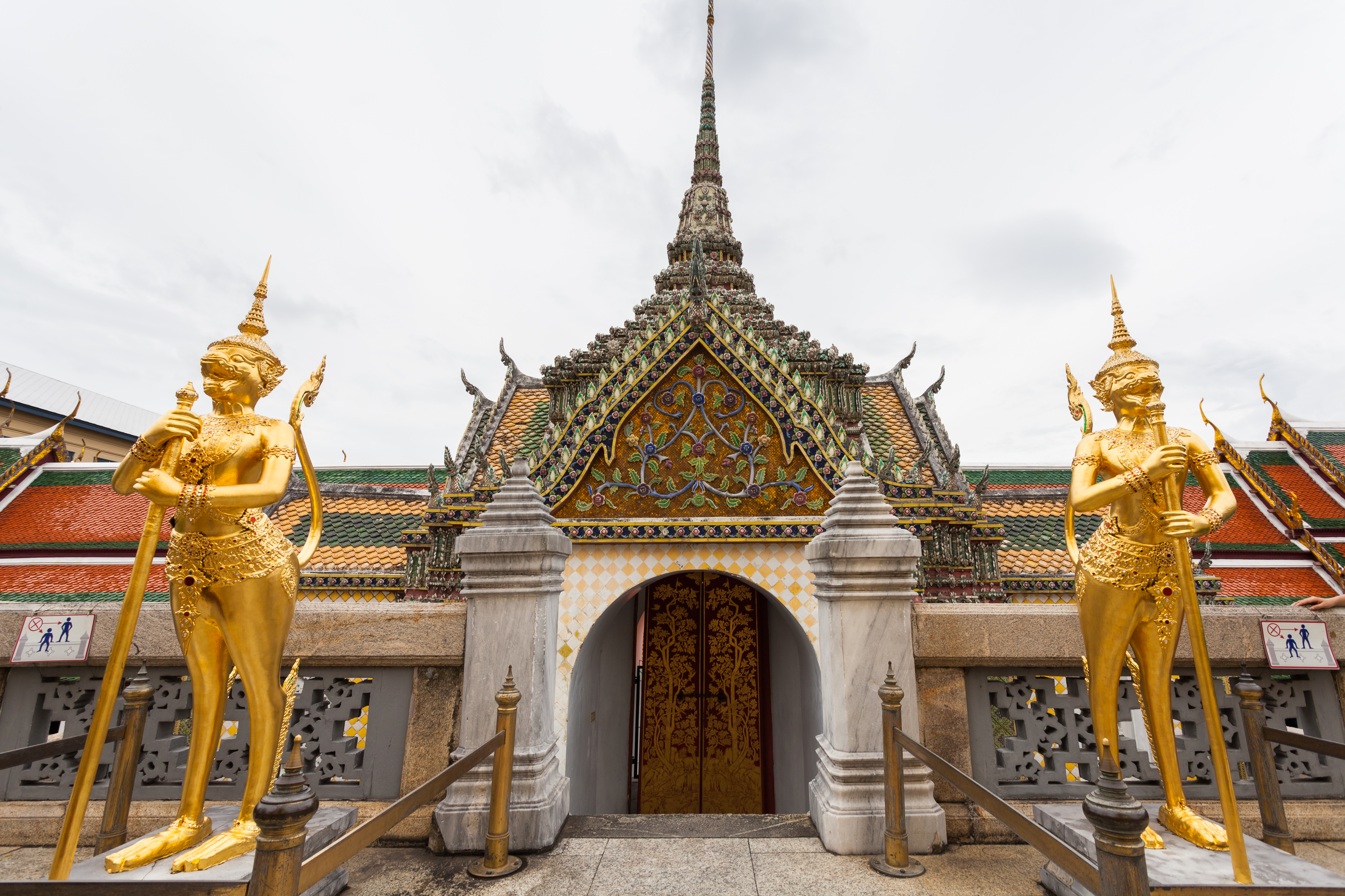 Grand Palace, Bangkok, Thailand